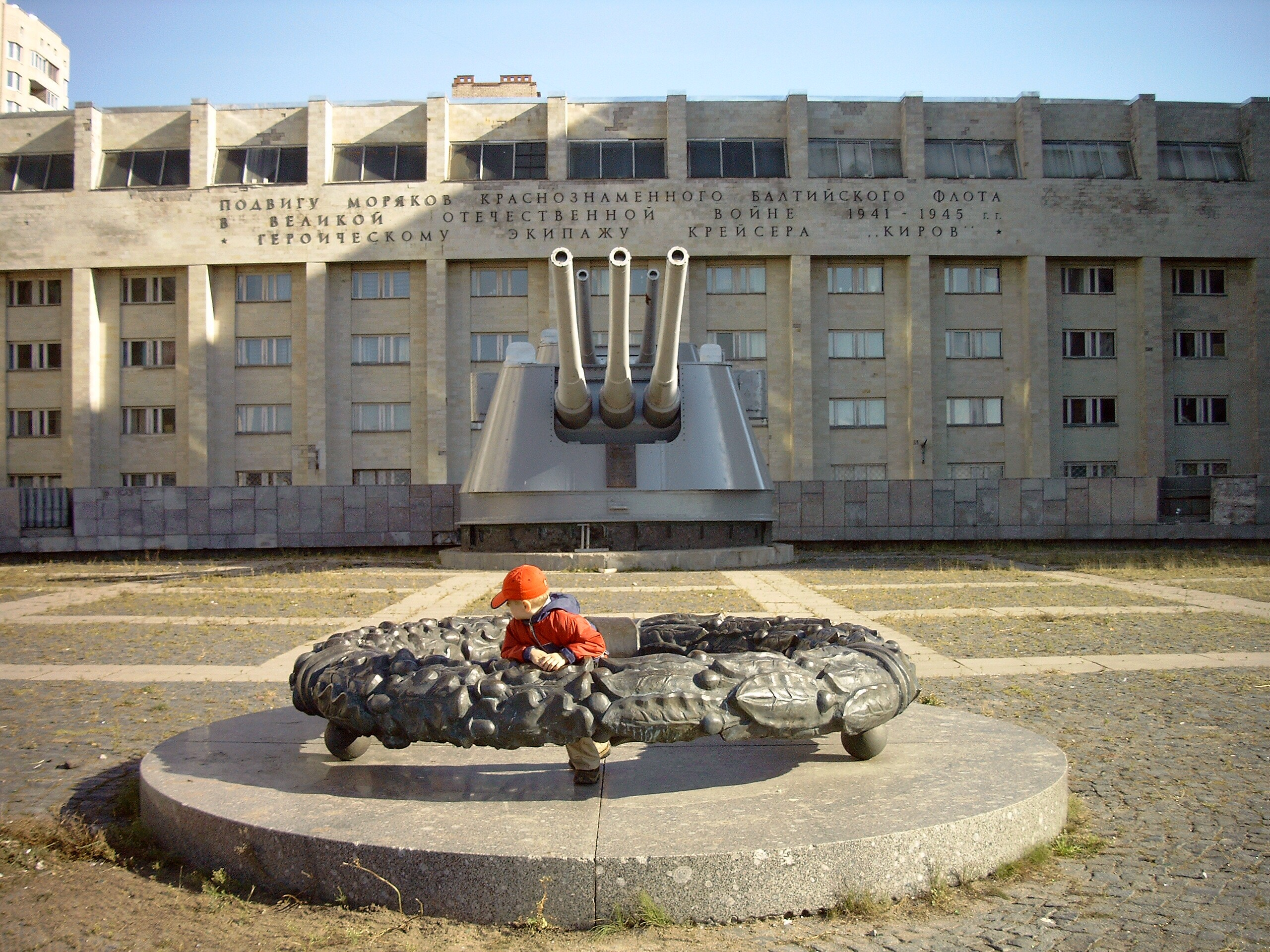 Cruiser Kirov Memorial, St Petersburg, RU Front